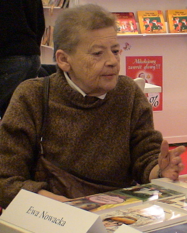 Ewa Nowacka, Polish writer (2007)